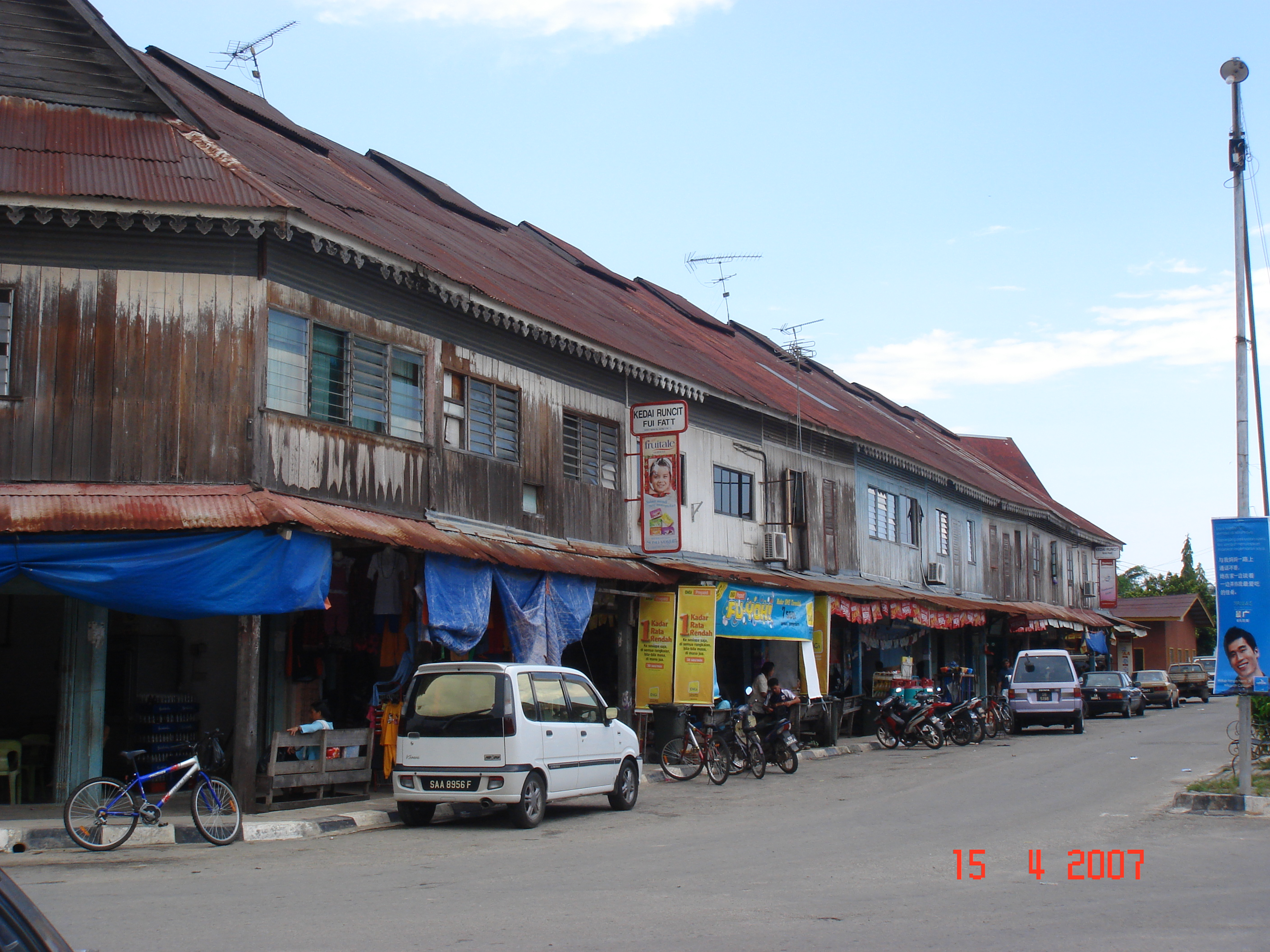 Pre-World War II shophouses in Bongawan, Sabah, Malaysia.